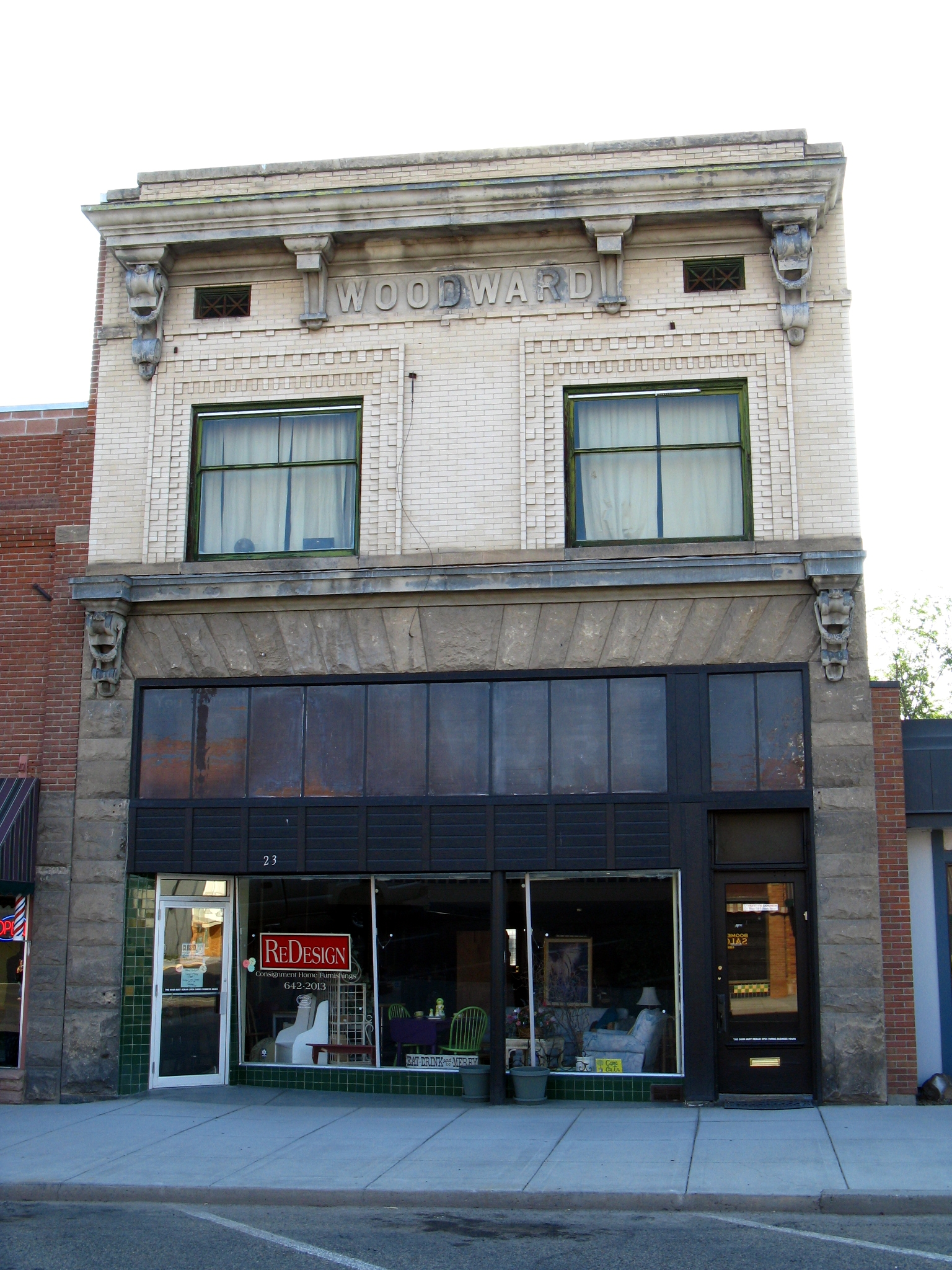 Woodward Building, Payette, Idaho. This building is listed on the National Register of Historic Places.